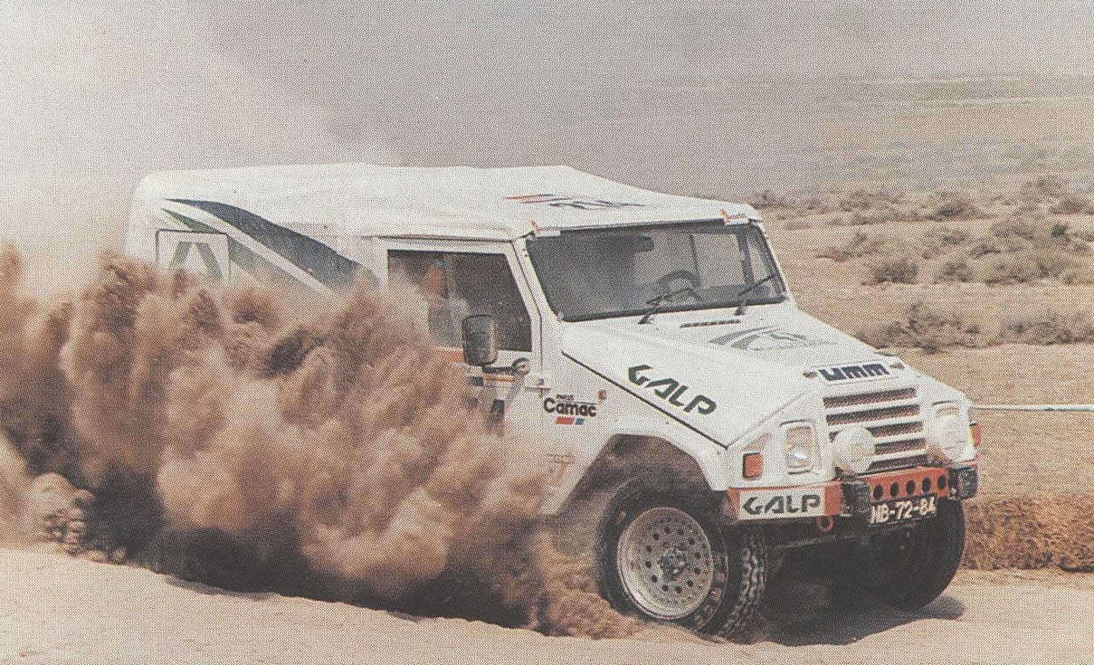 UMM V6 PRV